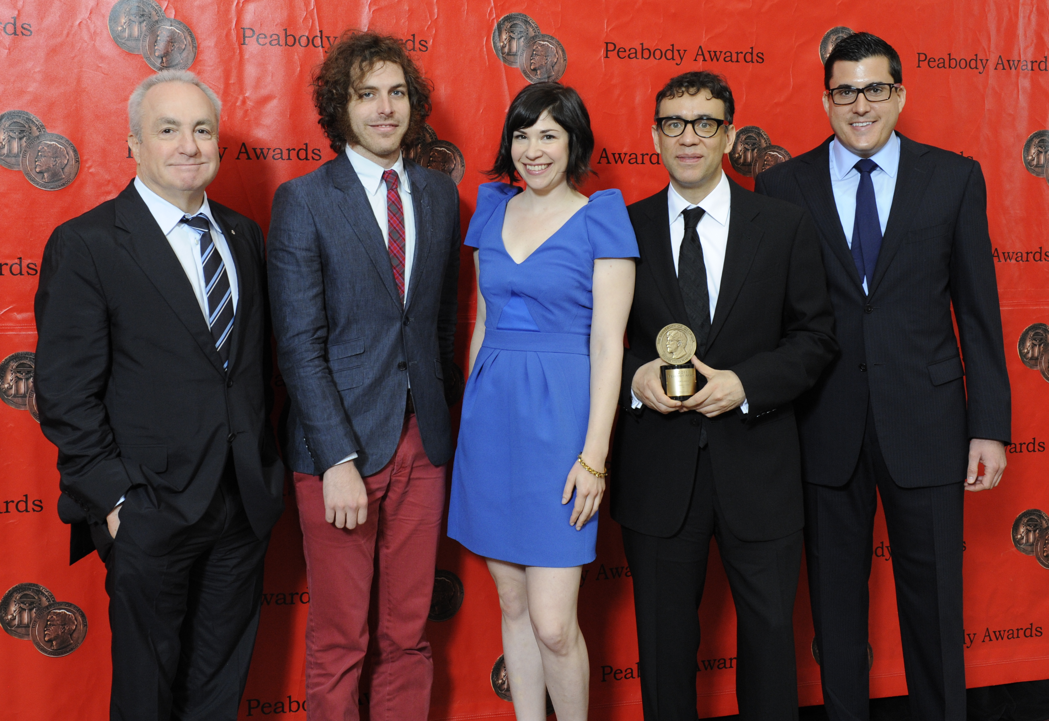 PHOTO CREDIT: ANDERS KRUSBERG / PEABODY AWARDS Lorne Michaels, Jonathan Krisel, Carrie Brownstein, Fred Armisen and Andrew Singer 71st Annual Peabody Awards Luncheon Waldorf=Astoria Hotel May 21, 2012